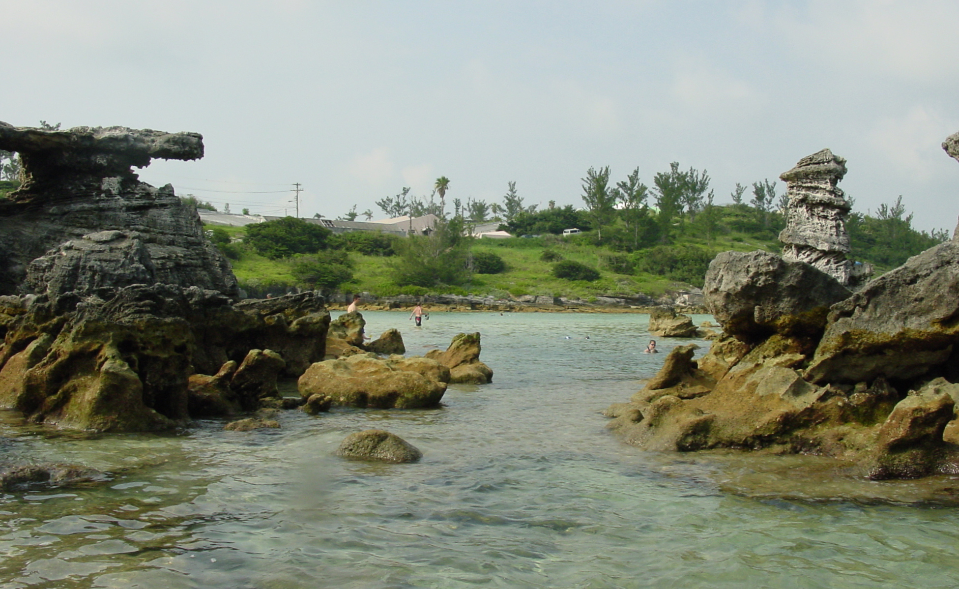 A view of Tobacco Bay in St. George's, Bermuda.